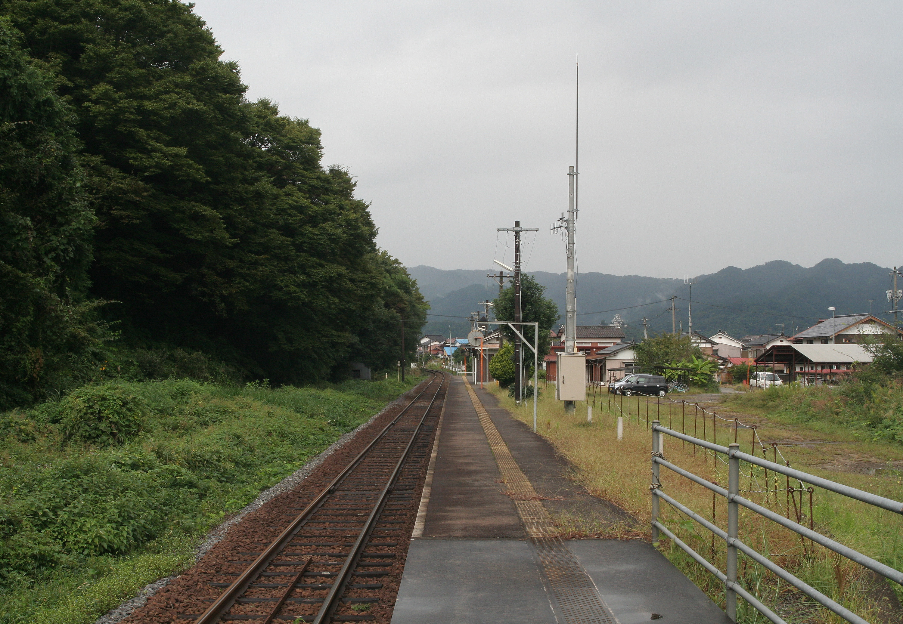 West Japan Railway Company Inbi Line, Kawahara Station